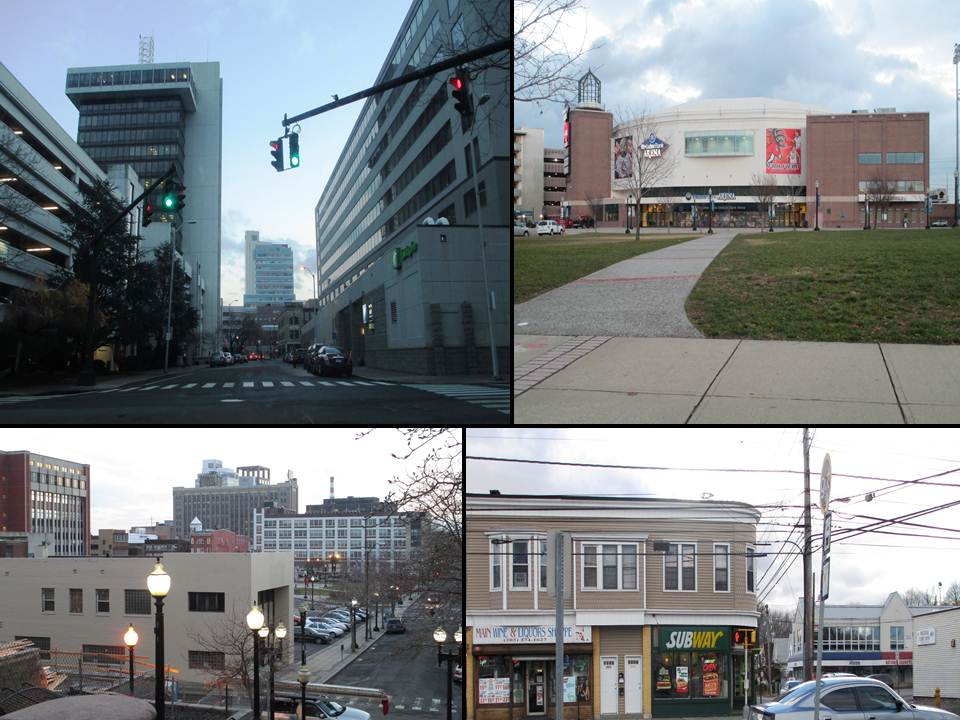 View of Bridgeport Center/People's Bank Building from Middle St. / Arena at Harbor Yard, Downtown from stairs, Subway